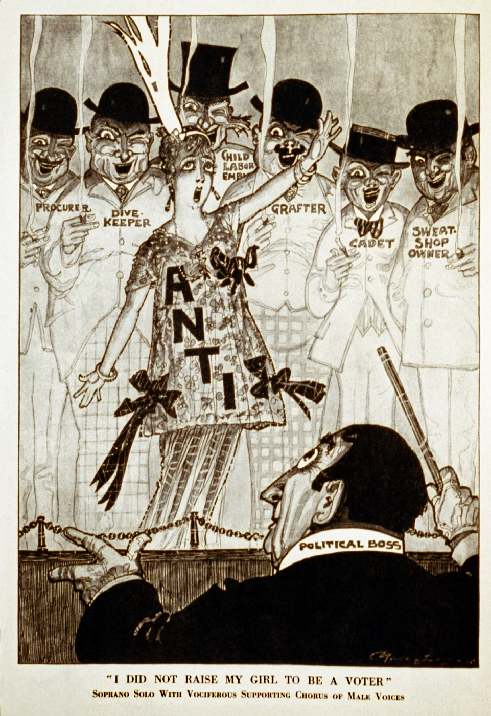 "I did not raise my girl to be a voter". Parody from Puck of the anti-World War I protest song "I Did Not Raise My Boy To Be A Soldier" with the context altered to women's suffrage. A conductor labeled "political boss" leads a lone female soloist surrounded by a male chorus with various labels including "procurer", "child labor employer", and "sweat shop owner". Arguments in favor of granting women the right to vote included the contention that female voters would support laws that reduced prostitution, labor abuses, and other social evils.